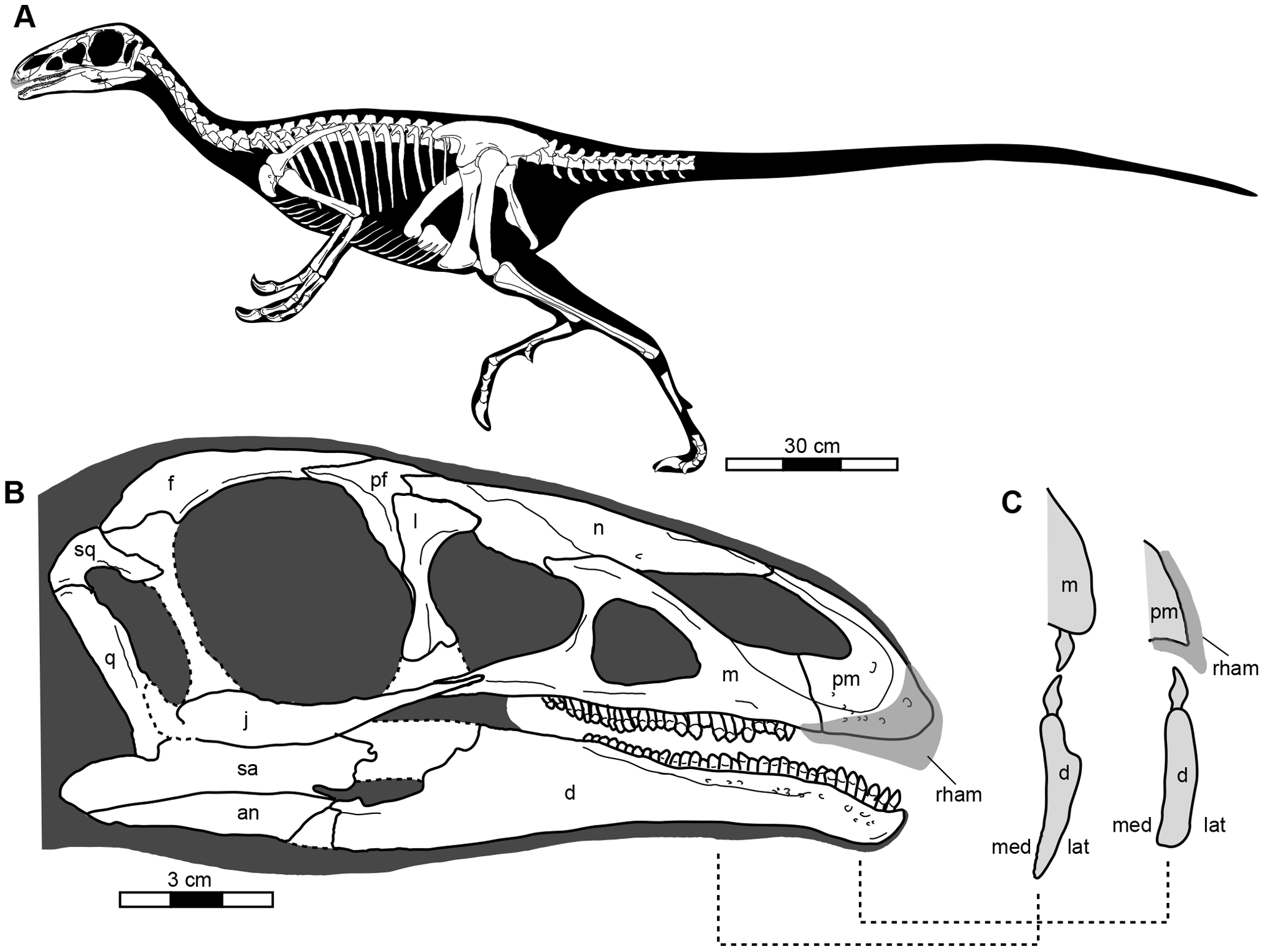 A, Reconstruction the skeleton of Jianchangosaurus yixianensis gen. et sp. nov. The hip height is approximately 1 meter. show more It is 1880 mm long from the skull to the eleventh caudal vertebra. B, Reconstruction of the skull. The ventral lacrimal, postorbital, posterior jugal, anterior edge of the quadrate, anterior surangular are missing. A rhamphotheca is reconstructed in grey based on edentulous area and a series of foramina. C, Cross section of the right upper and lower jaws, showing dental arrangement and rhamphotheca. Anterior portion (right) may have been used for plucking food by a rhamphotheca in the upper jaw and anterior dentary teeth with the normal dental morphology (convex labial and concave lingual surfaces). Posterior portion (left) shows the opposite dental morphology (concave labial and convex lingual surfaces) in the dentary, which allows the tips of the upper and lower teeth to abut each other. Abbreviations: an, angular; d, dentary; f, frontal; j, jugal; l, lacrimal; lat, lateral; m, maxilla; med, medial; n, nasal; pf, prefrontal; pm, premaxilla; q, quadrate; rham, rhamphotheca; sa, surangular; sq, squamosal.